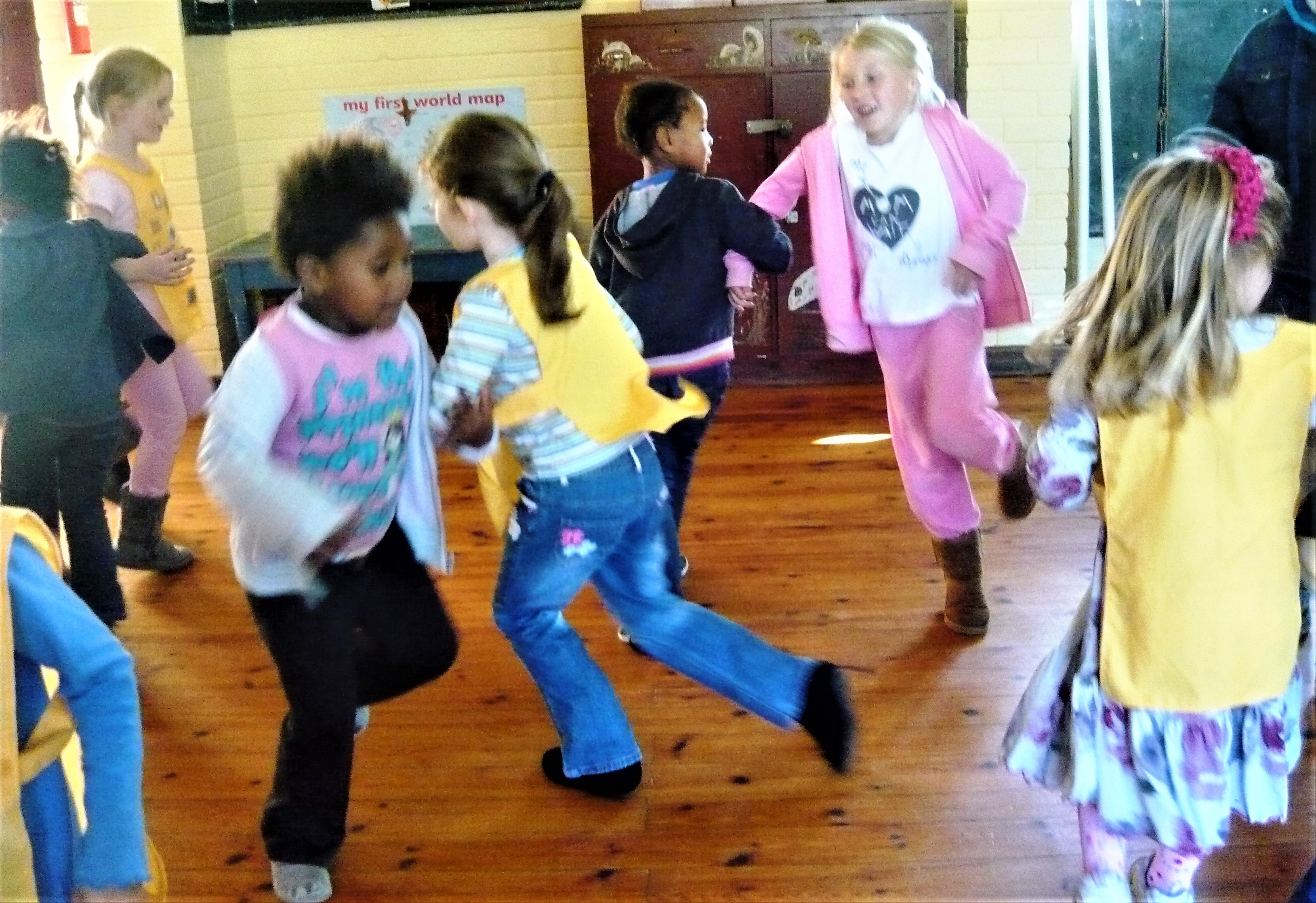 Dance surpasses cultural and language differences in young children